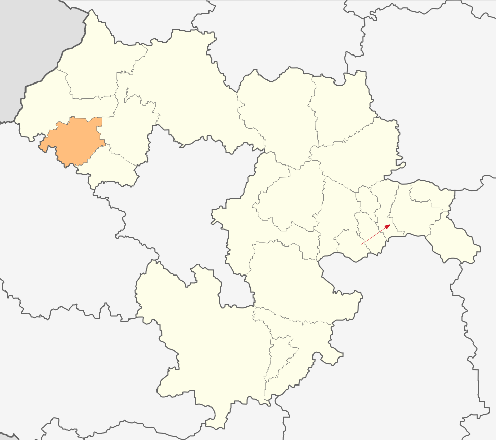 Map of Slivnitza municipality, Sofia Province.